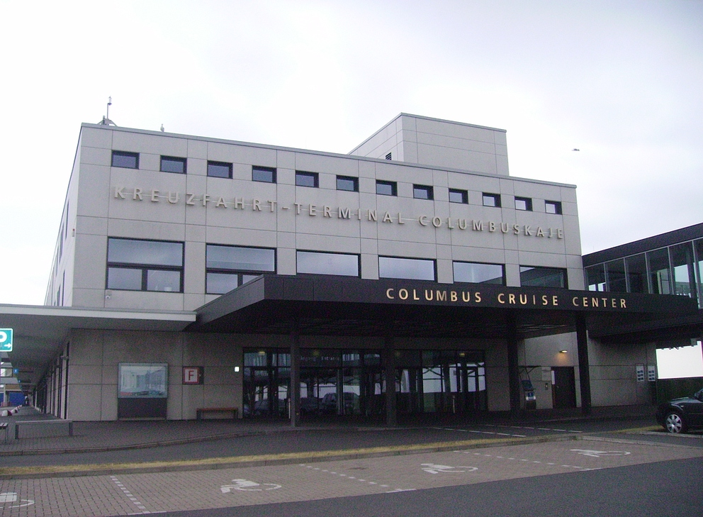 The Columbus Cruise Center is a terminal for passenger ships in Bremerhaven, Germany